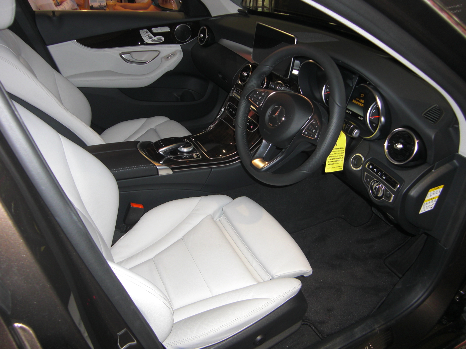 Mercedes-Benz C-Class